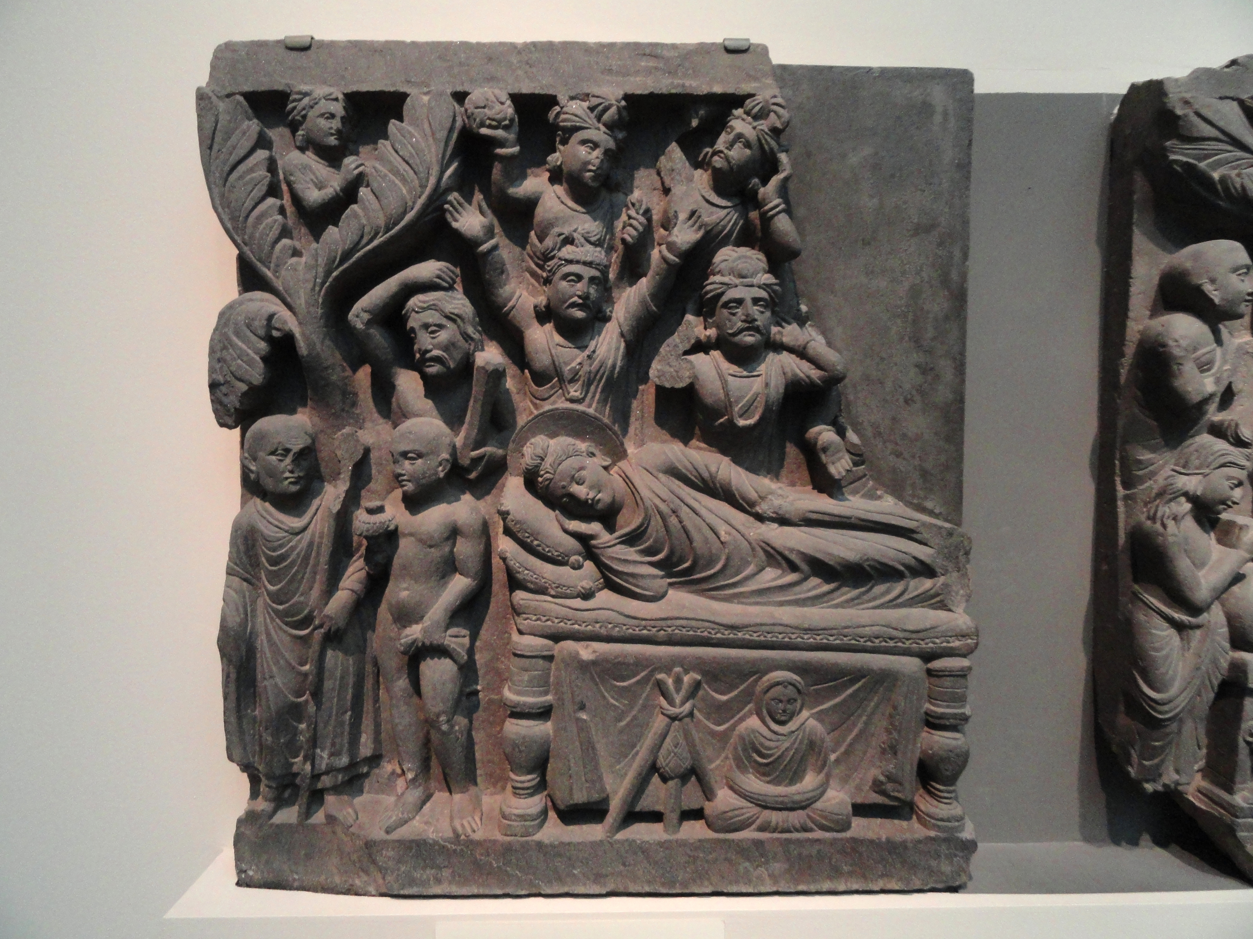 Exhibit in the Freer Gallery of Art, Washington, DC, USA. This artwork is old enough so that it is in the public domain.